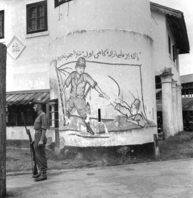 KUCHING FORCE. JAPANESE PROPAGANDA. A LARGE SIGN PAINTED ON THE SIDE OF A PUBLIC BUILDING IN KUCHING.